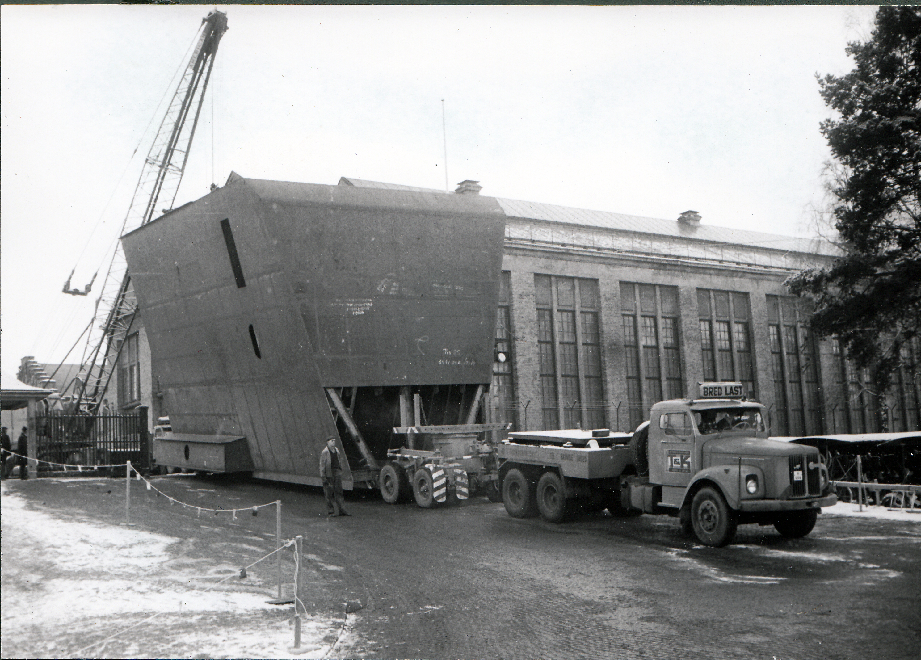 Transportation of top sections to Eriksberg Shipyard new crane frpm NOHAB in Trollhättan 17th December 1968